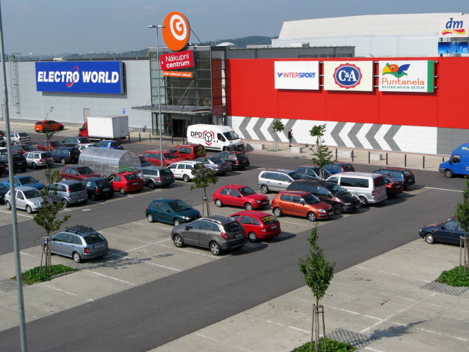 Nakupni centrum Gecko - exterior